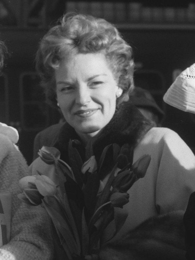 Jinny Osborn in Amsterdam in 1959. Cropped from File:Chordettes1959.jpg.